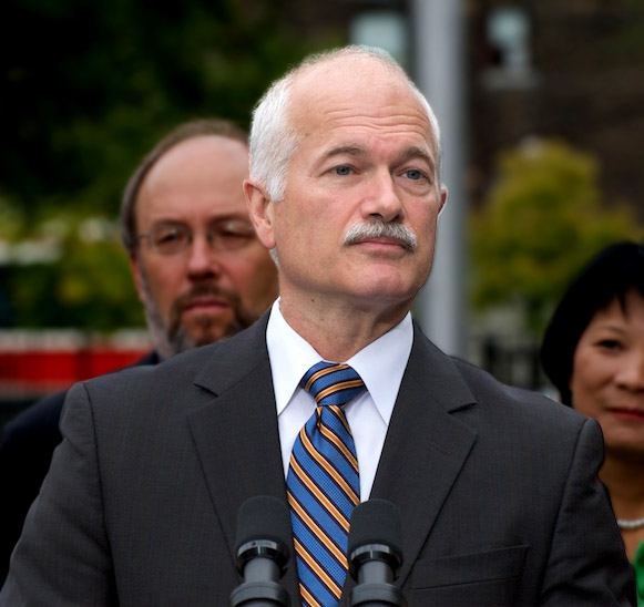 Jack Layton, NDP campaign 2008 Transit Announcement. Cropped from original, background darkened and blurred